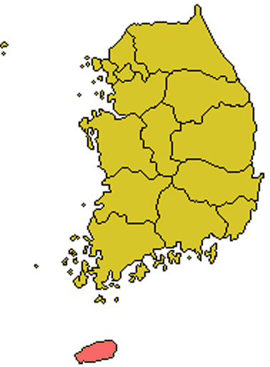 Diocese of Jeju